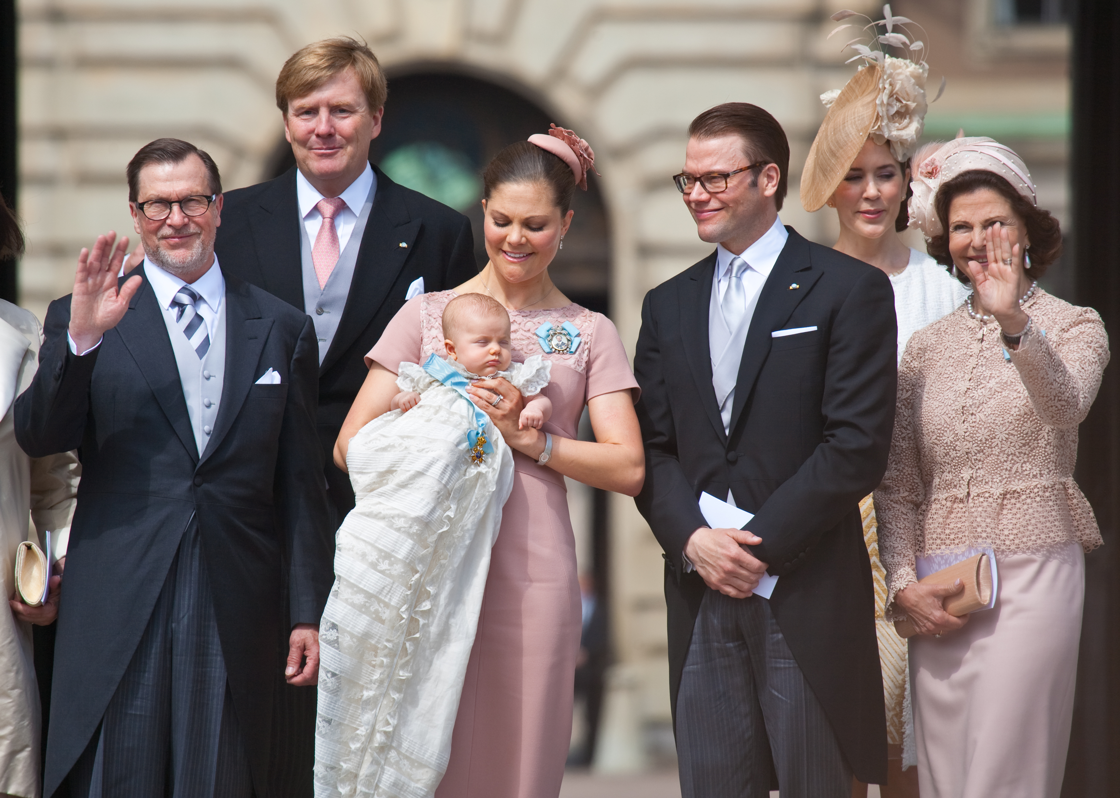 Princess Estelle Silvia Ewa Mary immediately after her baptism in Stockholm, Sweden, May 2012